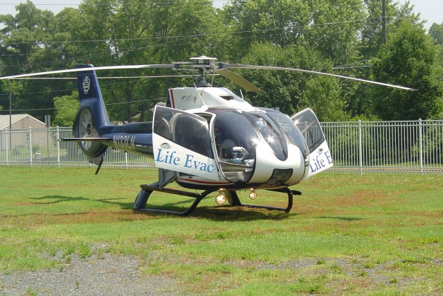 LifeEvacII